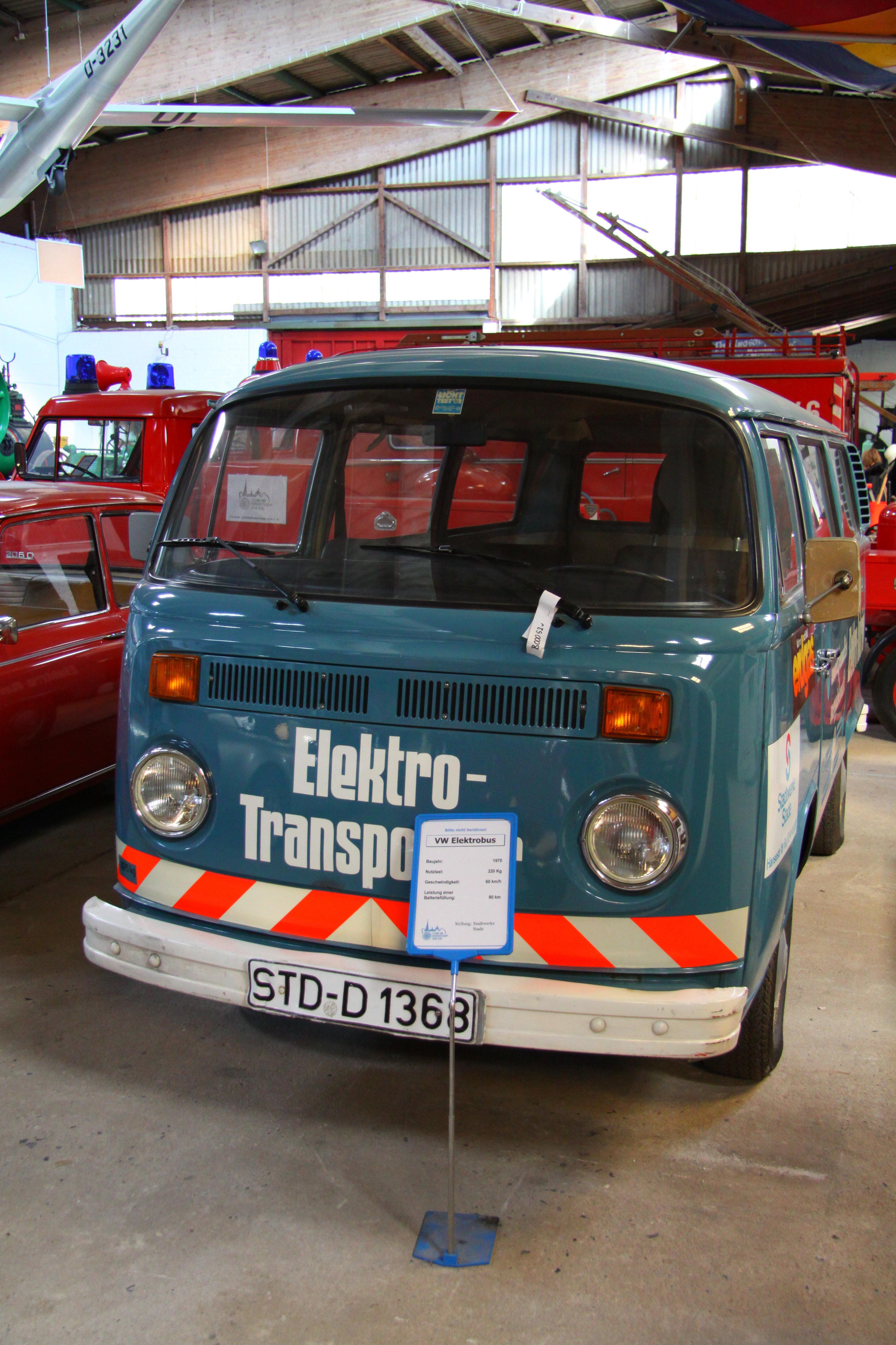 1970 VW T2 fitted with an electric drive. Range of 80 km on a single battery charge at a maximum speed of 60 km/h.